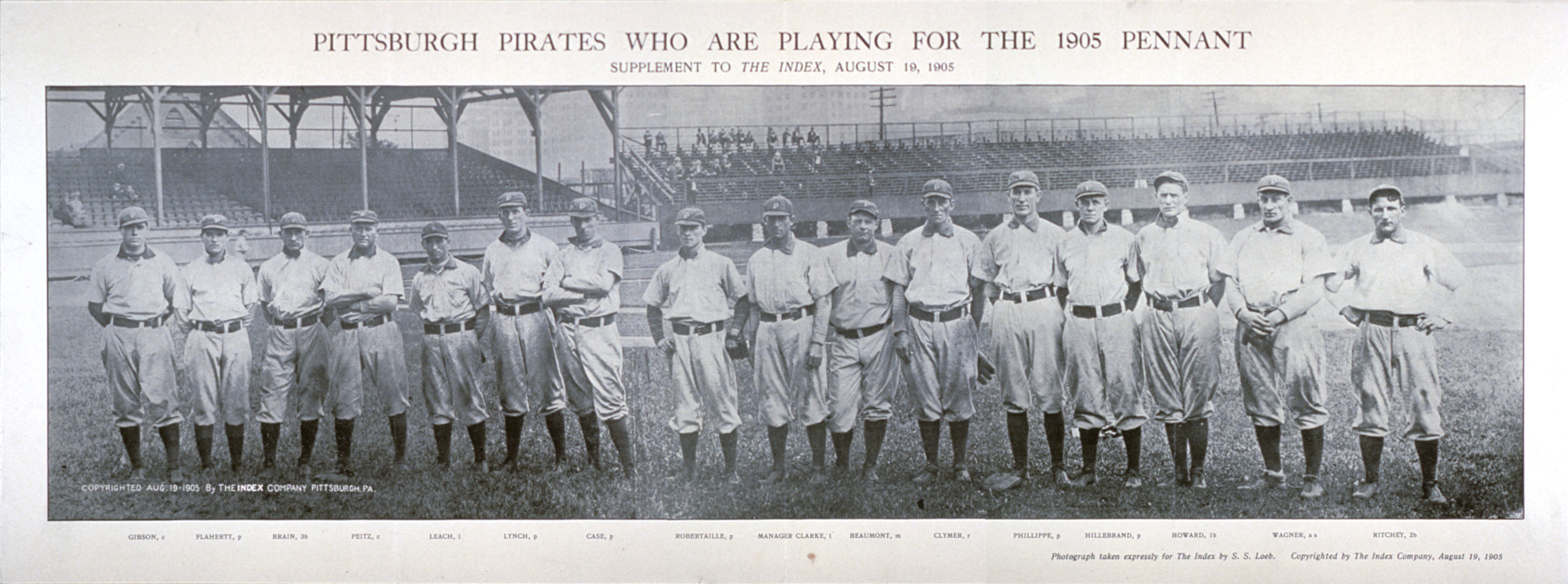 Pittsburgh Pirates who are playing for the 1905 pennant.